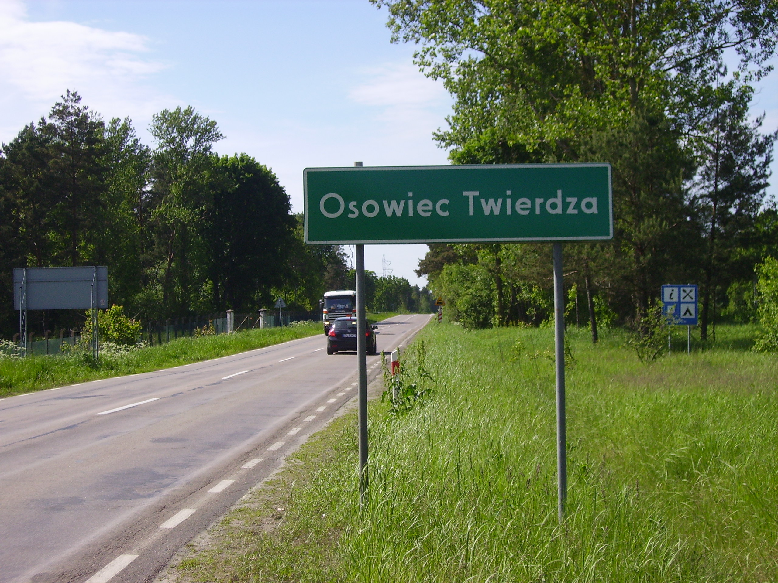 Plaque with the name of the village.